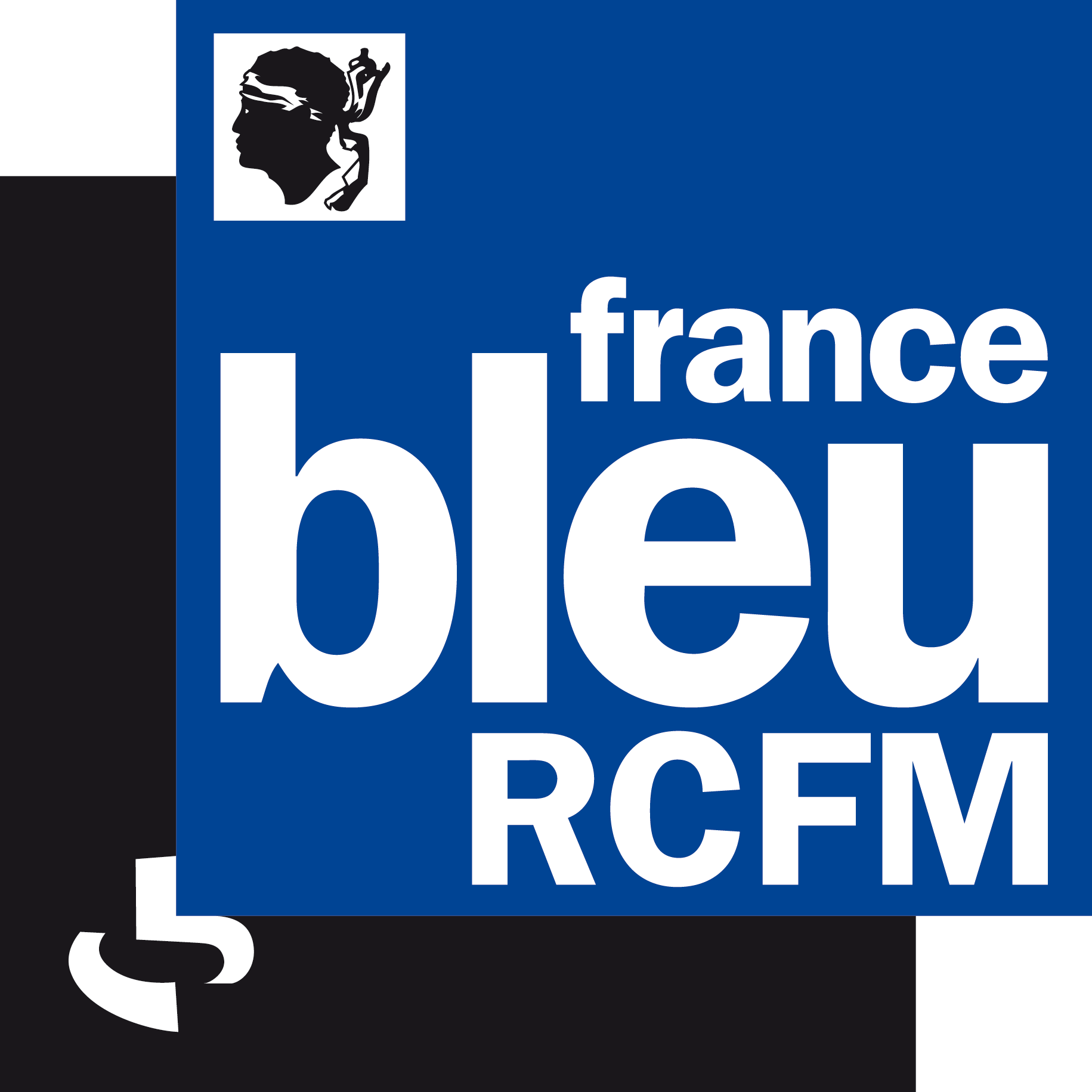 A logo of France Bleu owned by Radio France.